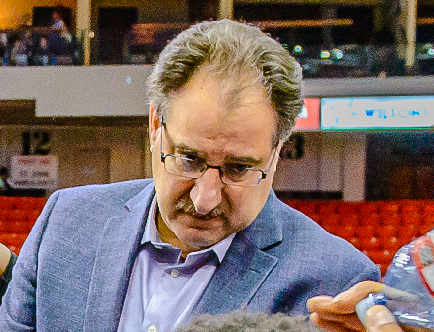 The London Lightning discussing what to do next against the Halifax Rainmen during NBLC action